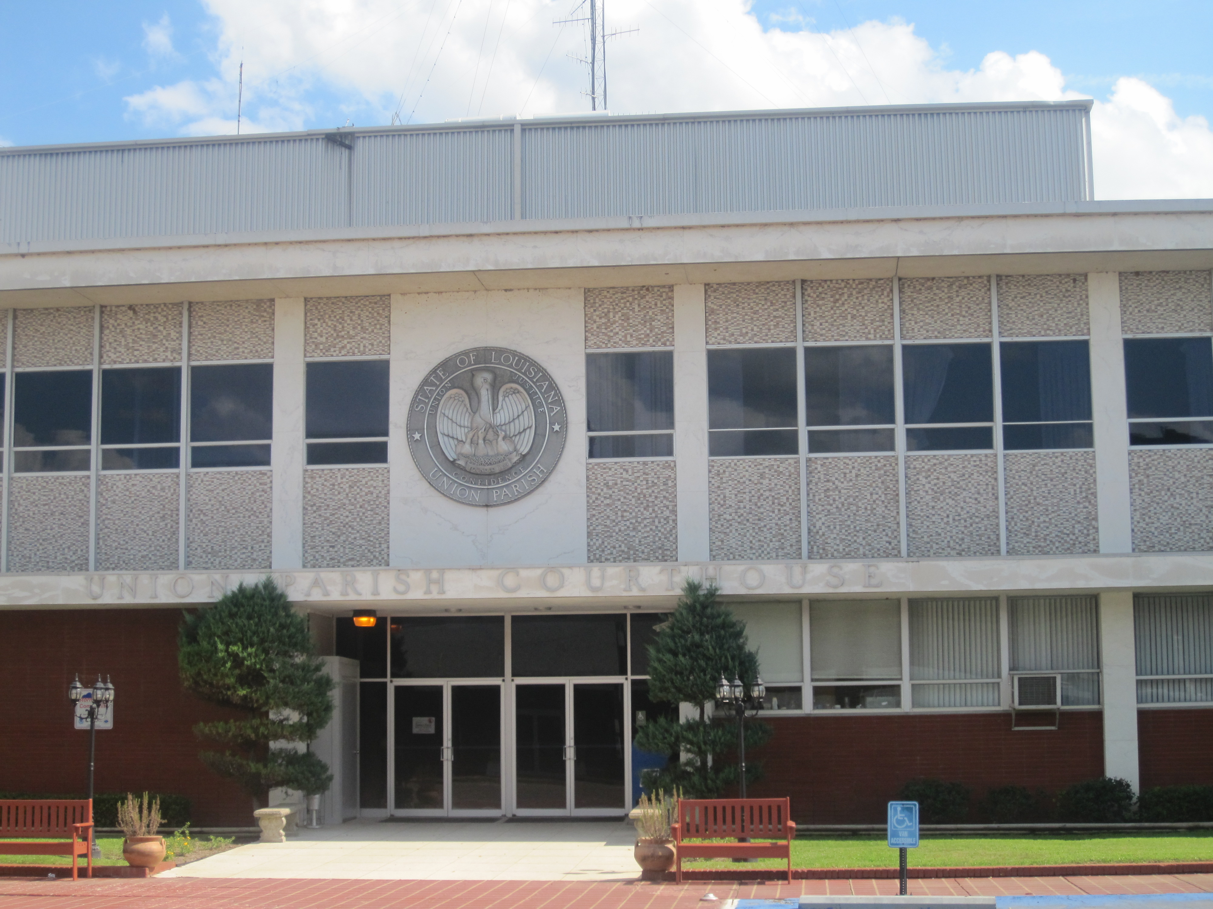 I took photo with Canon camera.